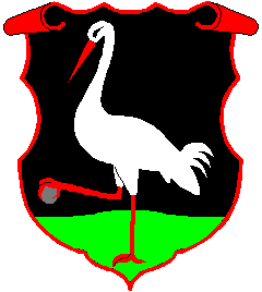 Dunayivtsi Coast of Arms